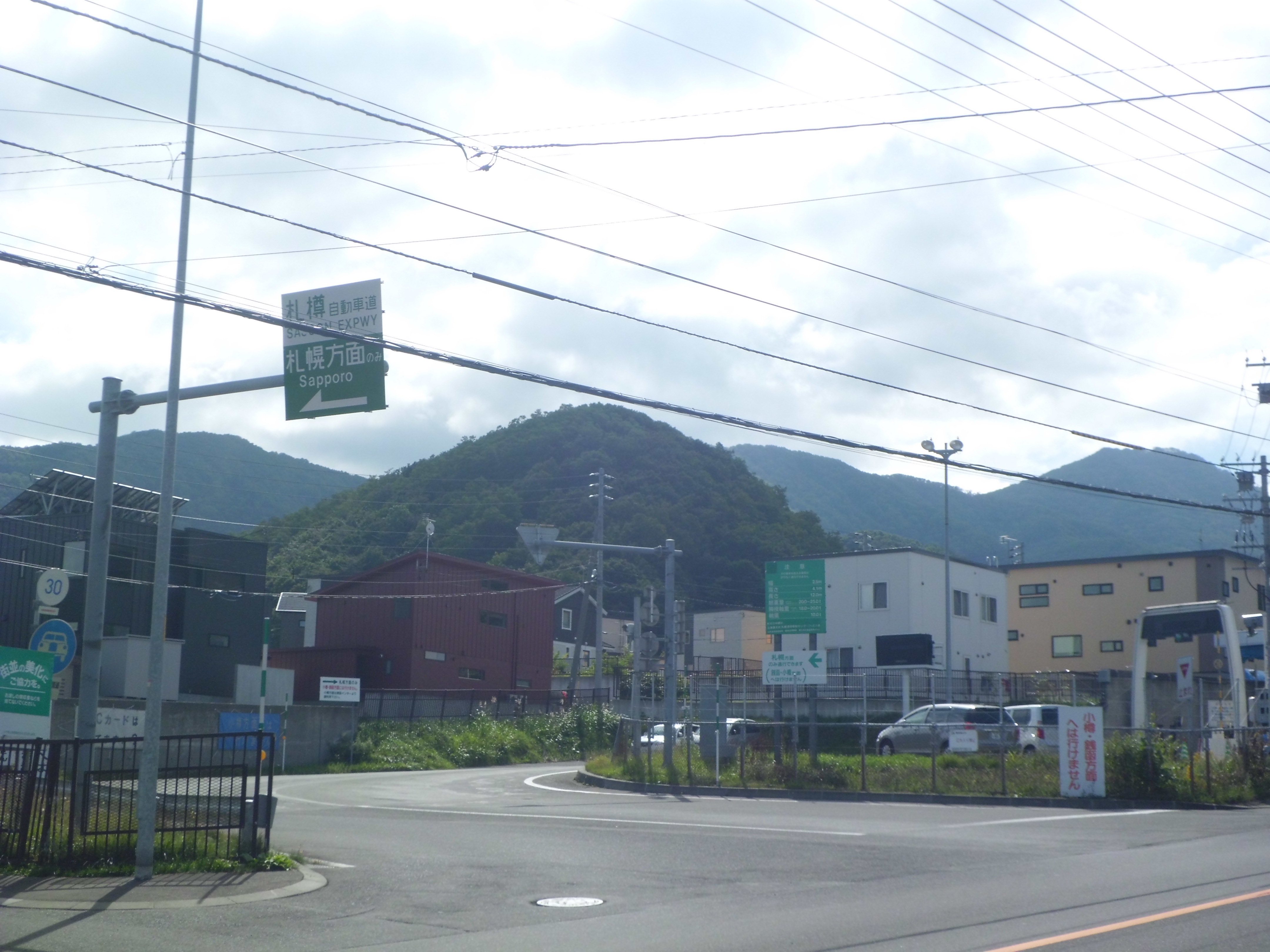 Mount Maruyama (Teine-ku, Sapporo), looking from Teine Interchange